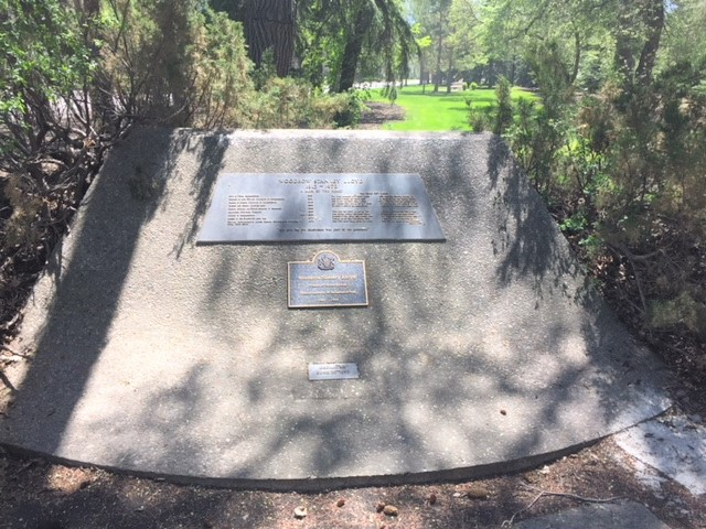 Woodrow Lloyd Memorial, Wascana Park, Regina, Saskatchewan